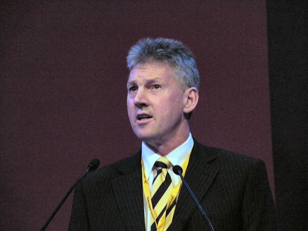 George Lyon, MEP addressing a Liberal Democrat conference in the Bournemouth International Centre